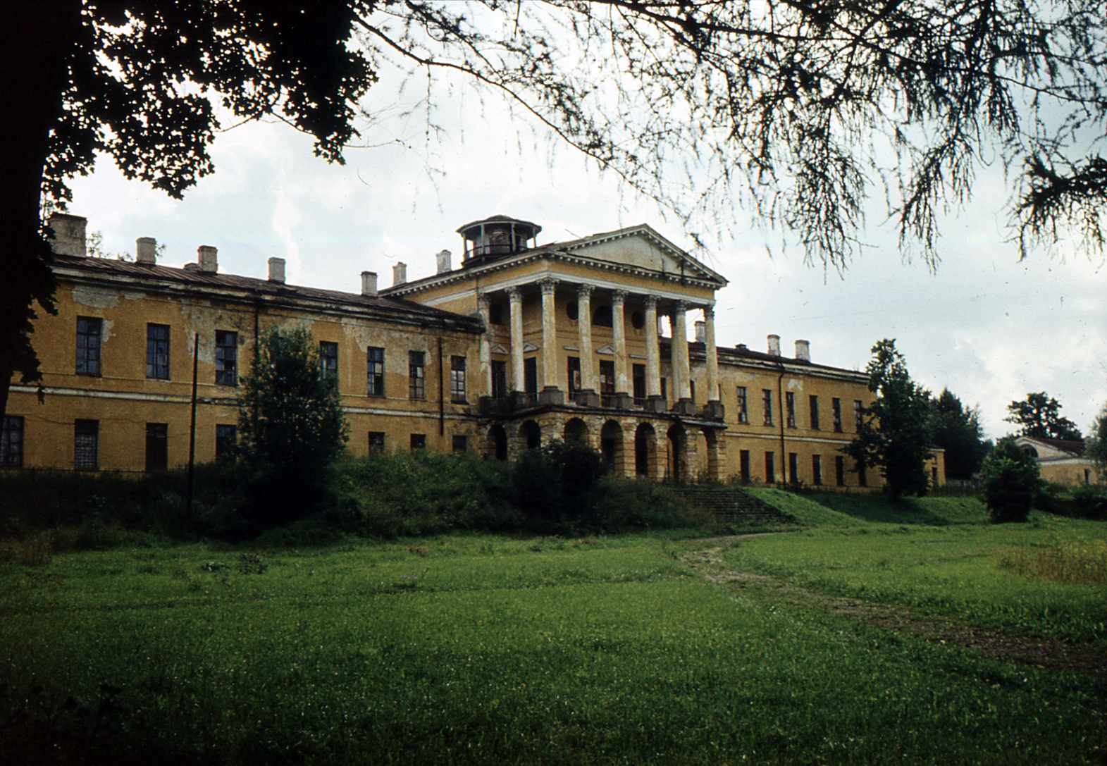 Ropsha Palace in Leningrad Oblast — in 1974.